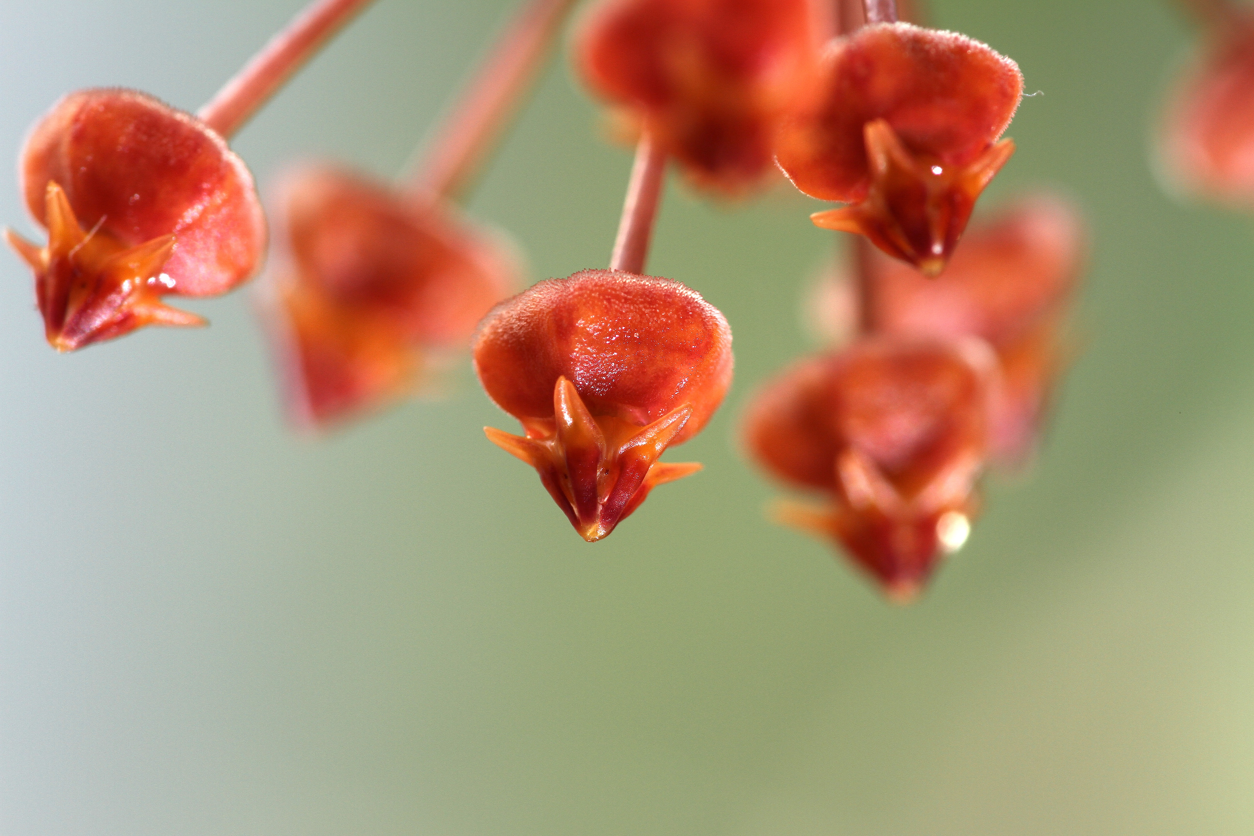 close up of Hoya loheri flowers